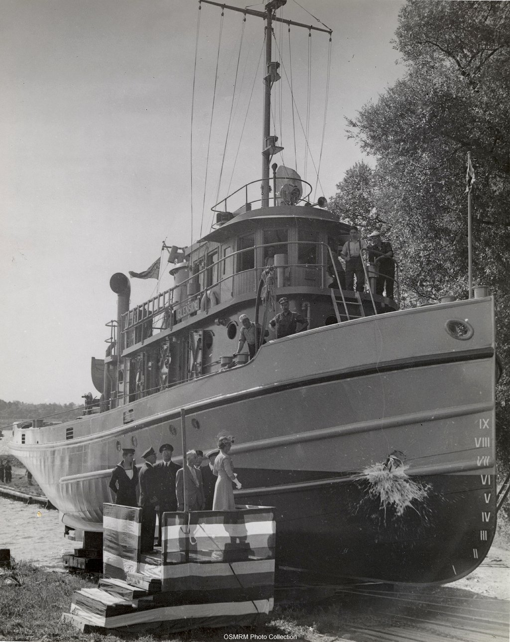 Launch of the WW2 tugboat HMCS Glenside.